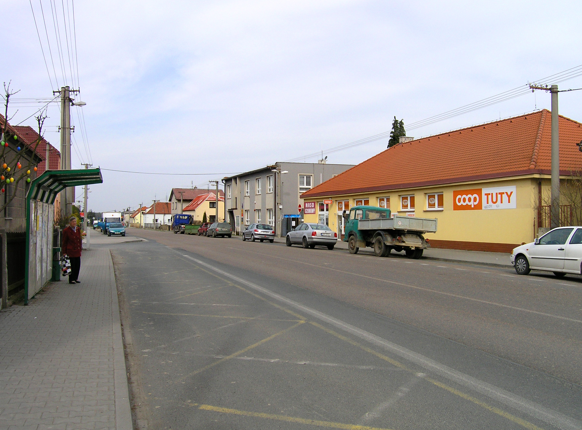 Plzeňská street in Zruč-Senec village, Czech Republic